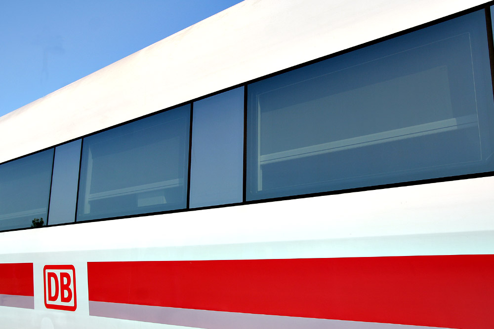 Former InterCityExpress colour concept (two bars). In September 2006, this design could still be seen on a car of the ICE S in September 2006.